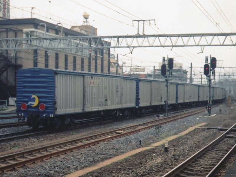 A train of JR East Waki 10000 "Car Train" wagons at Omiya Station in Saitama Prefecture, japan